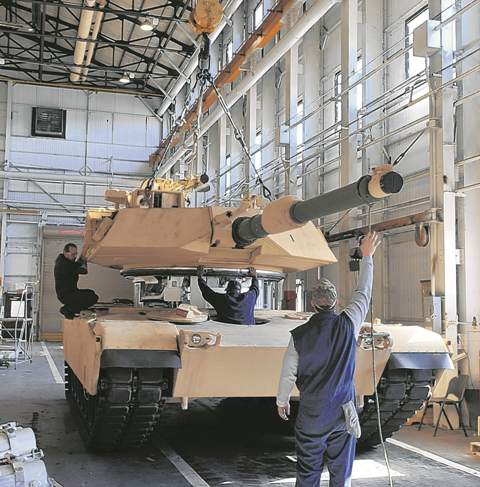 Mechanics at AMC's Anniston Army Depot in Anniston, Ala., line up a turret with its hull. As the Army's executive agent for equipment reset, AMC is responsible for repairing and recapitalizing equipment to ensure it's always ready for the fight.